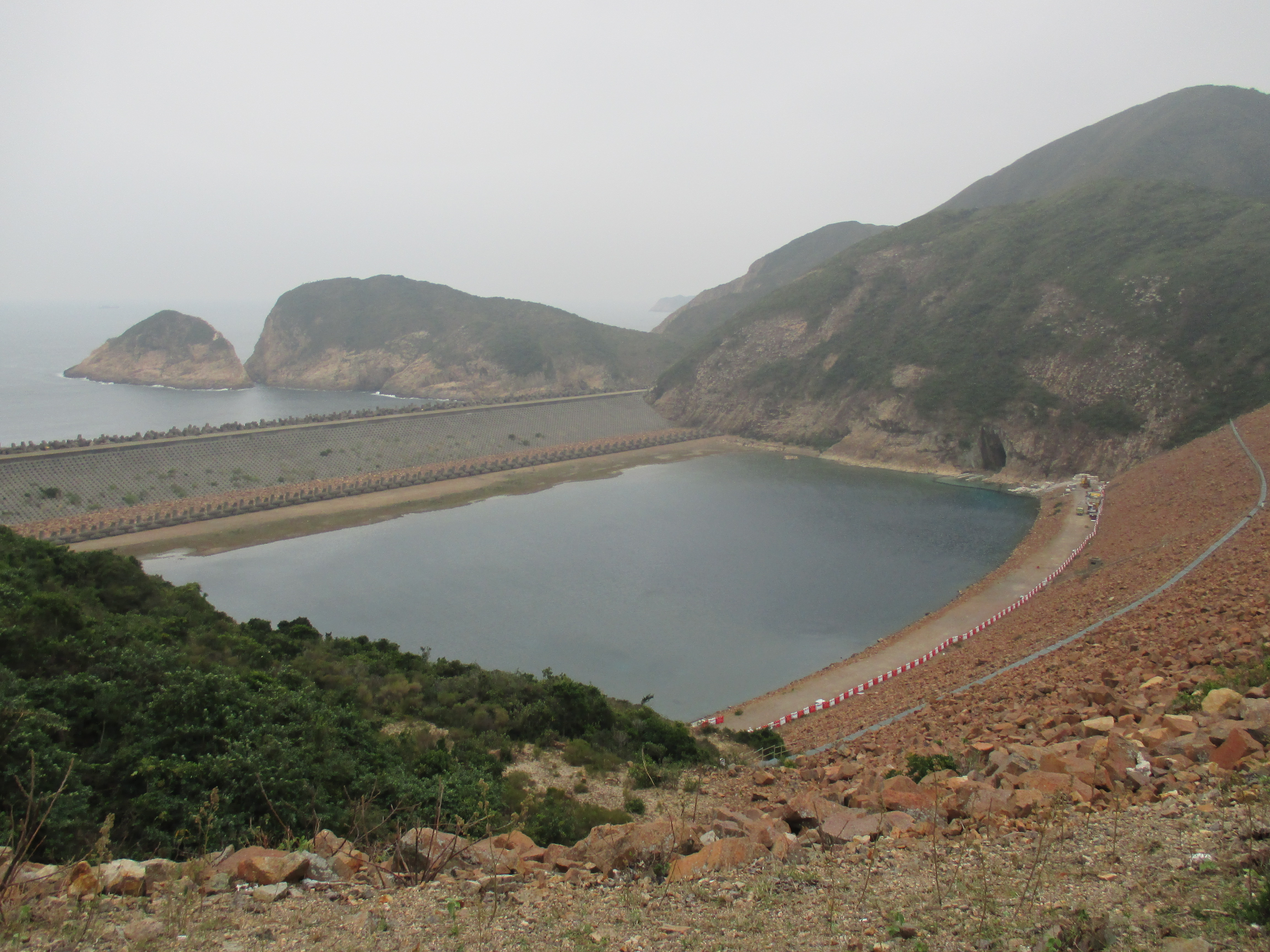 East Dam, High Island Reservoir, Sai Kung District, Hong Kong